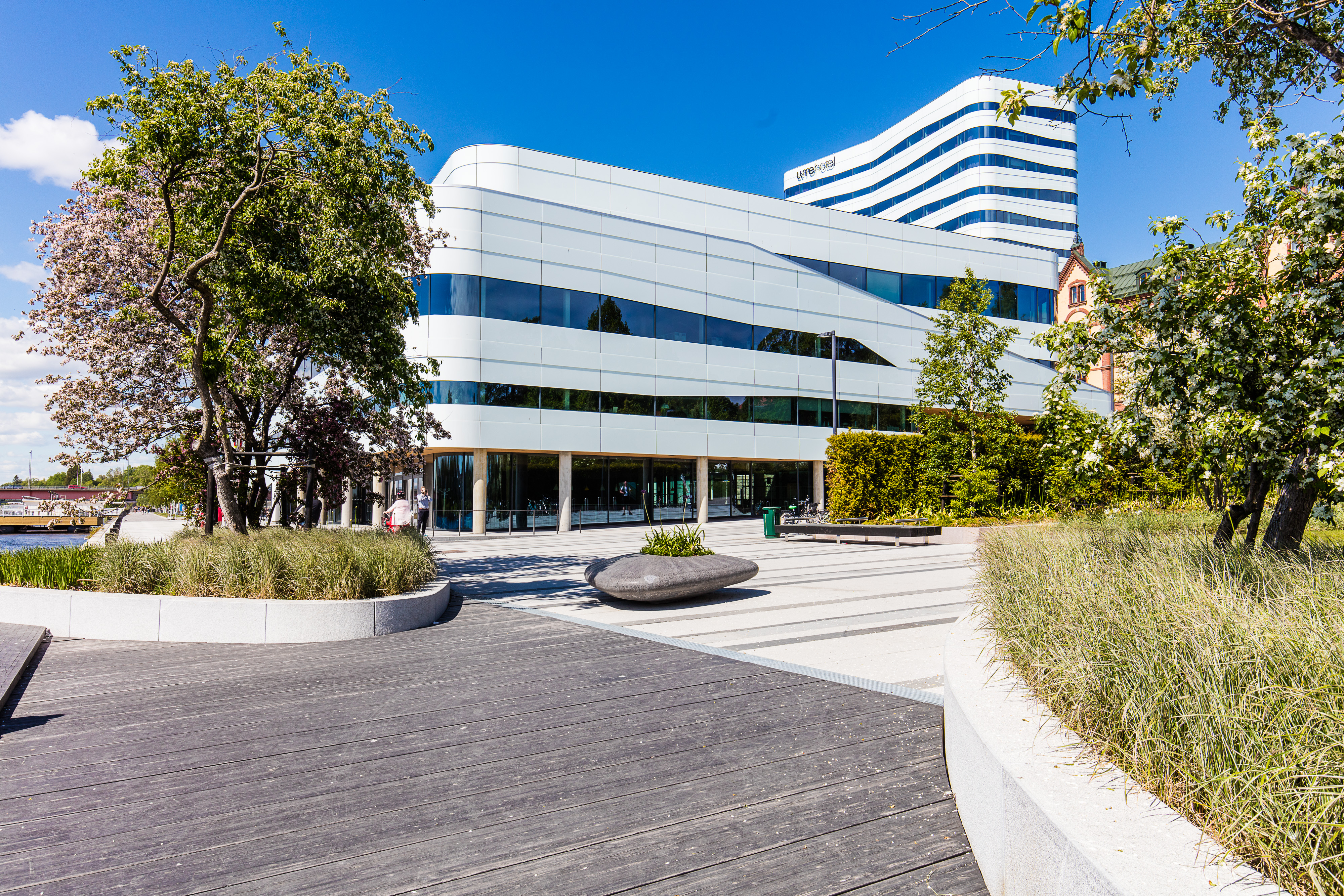 Rådhusparken, by the Ume River.